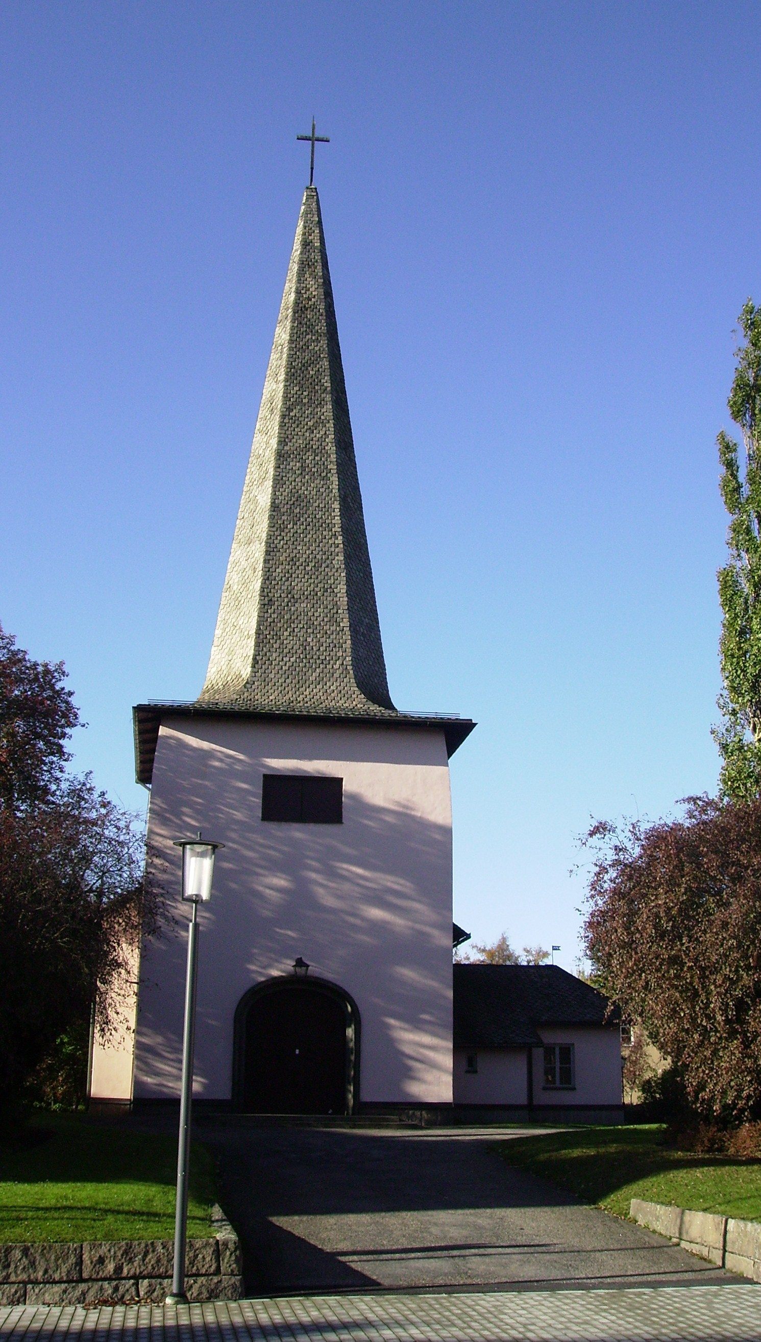 Picture of Adventskyrkan in Hallsberg